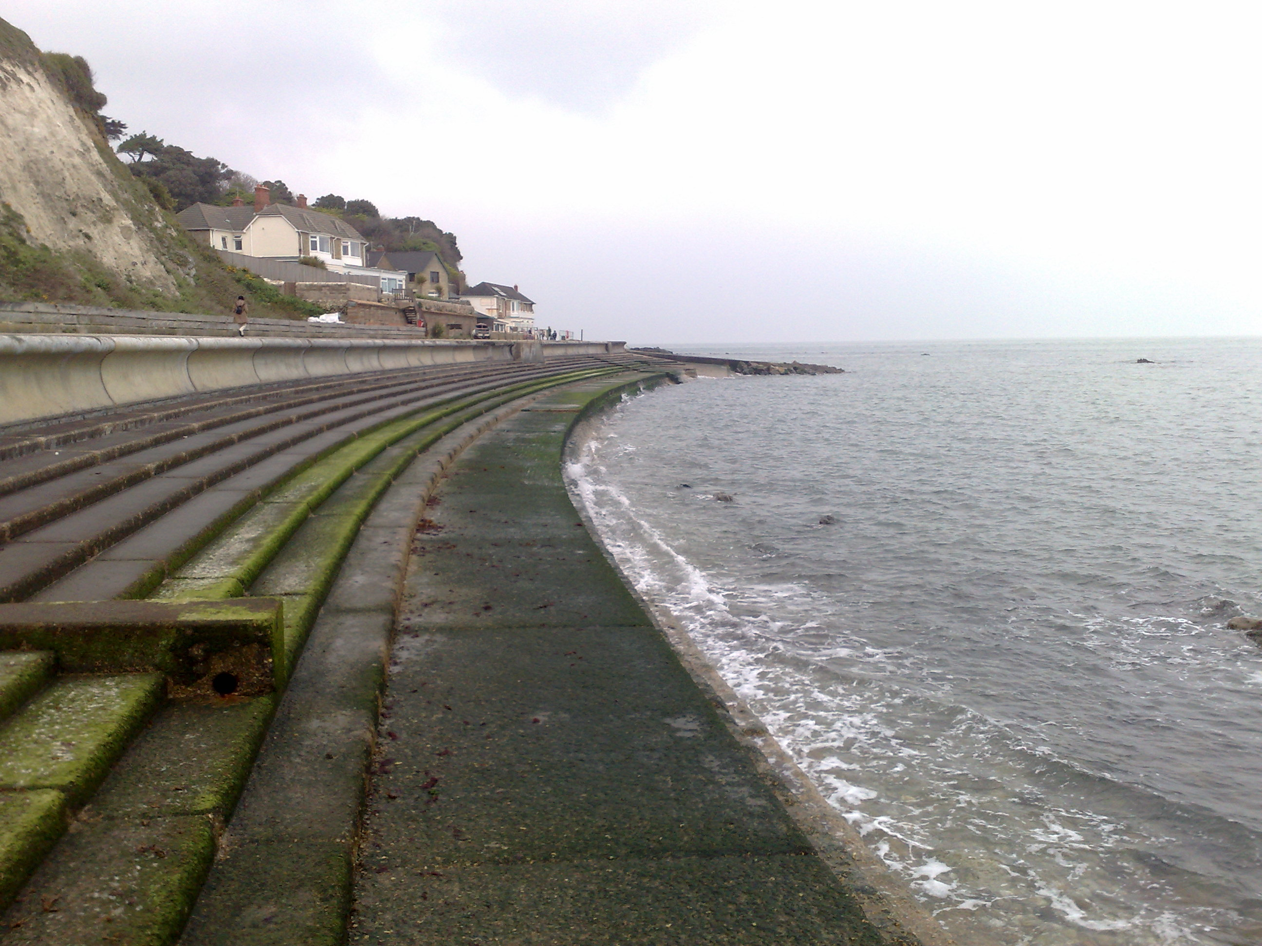 Horseshoe Bay no.2